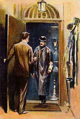 Ilustration of "The Adventure of the Golden Pince-Nez."